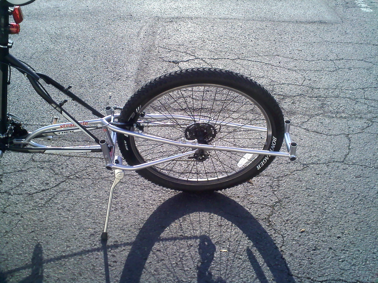 This is a closeup picture of the Xtracycle Free Radical